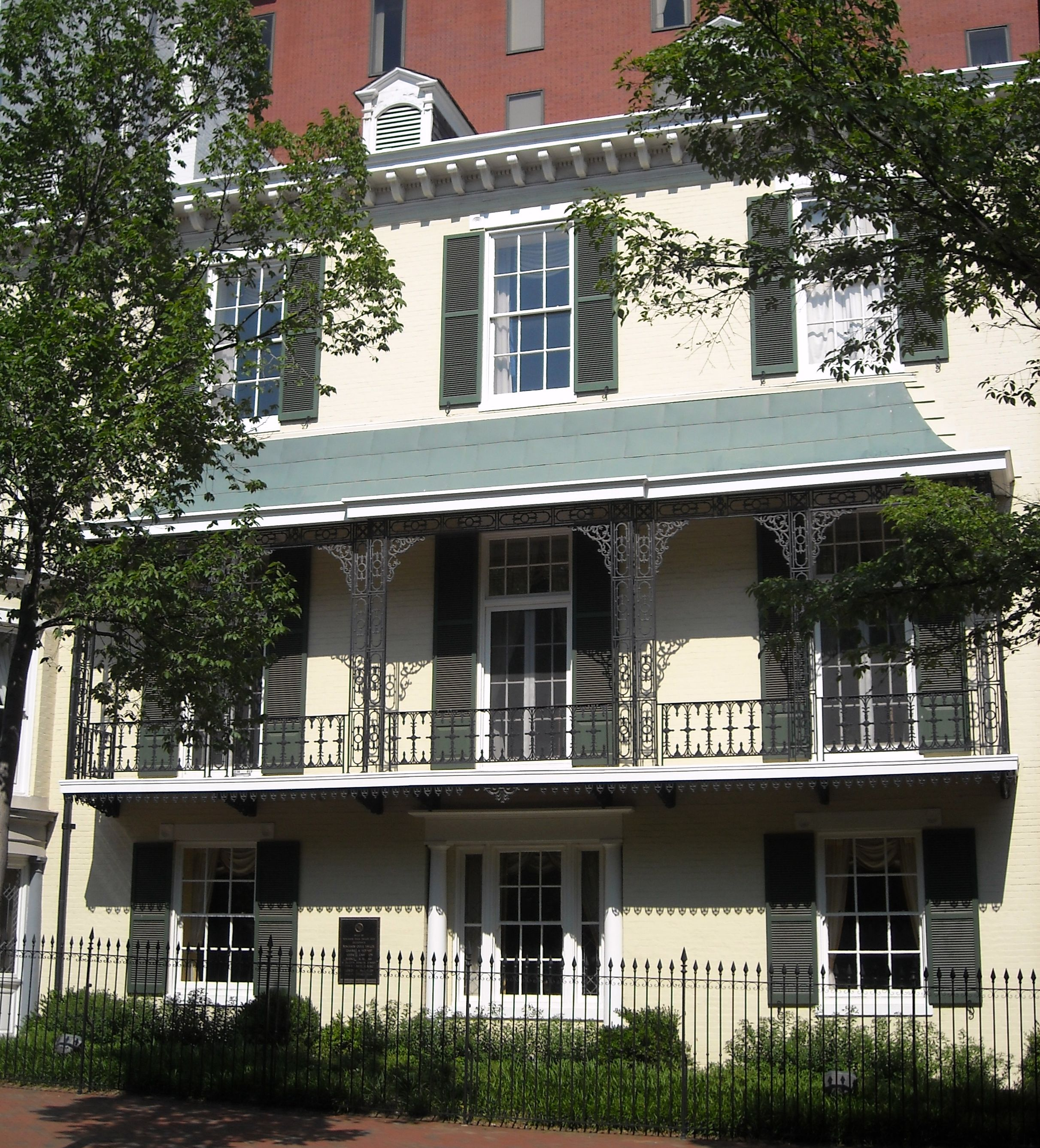 Benajmin Ogle Tayloe House, also known as the Little White House, located at 21 Madison Place NW (Lafayette Square) in Washington, D.C. It was built in 1828 for Benjamin Ogle Tayloe. It was the home of NASA's headquarters from 1958 until 1961.